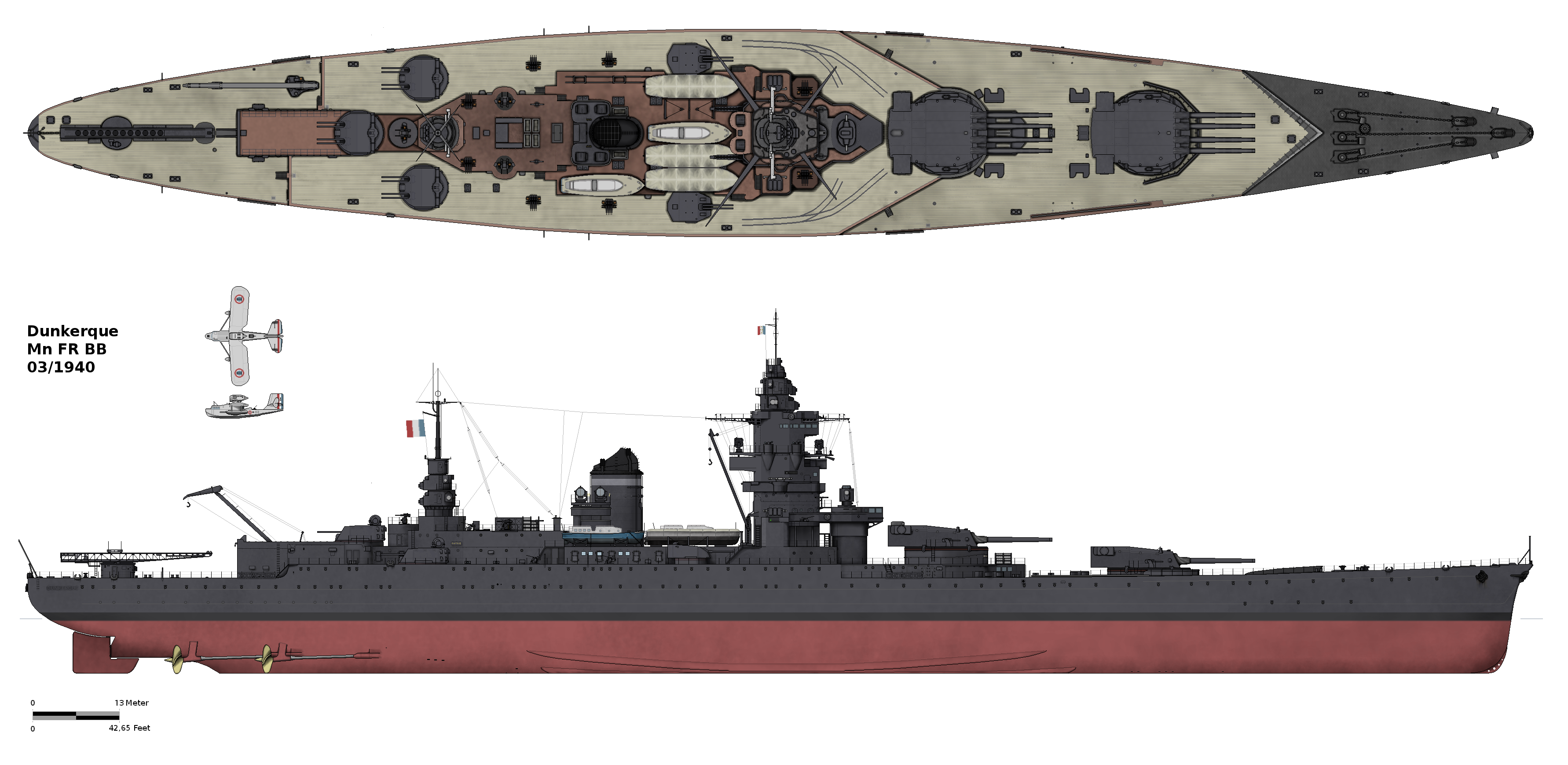 2-view drawing of the french navy battleship Dunkerque, showing her configuration and color after her refit in 2/1940.